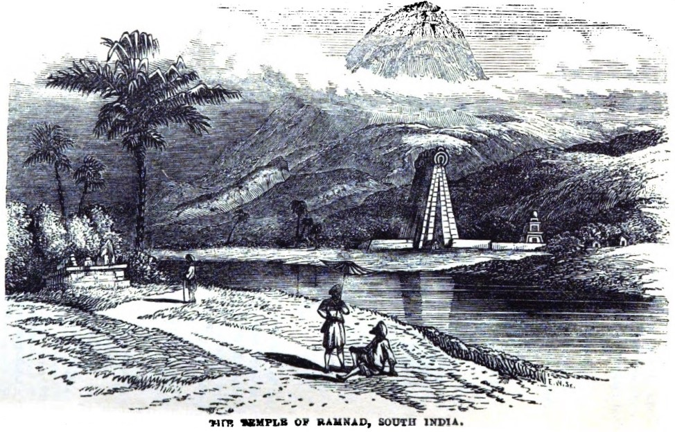 The temple of Ramnad, South India (XV, August 1858, p.84)